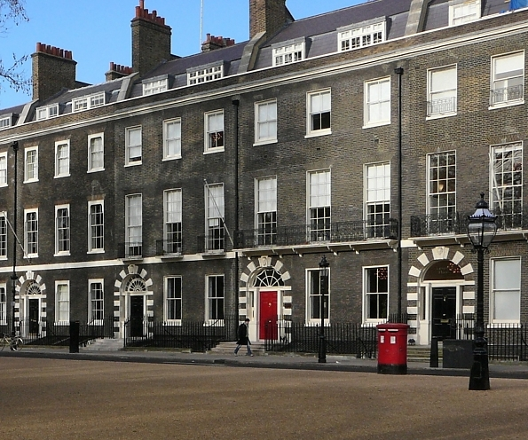 Houses in Bedford Square, London showing discoloured yellow London stock bricks.